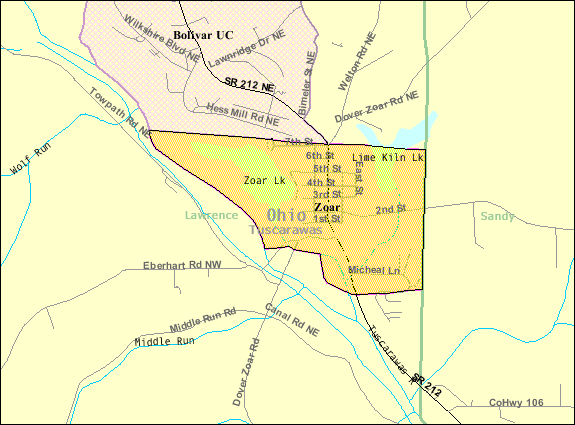 Map of Zoar, a village in Tuscarawas County, Ohio, United States, with its boundaries at the time of the 2000 census.